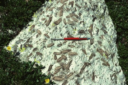 Andalusite-Cordierite schist in metasedimentary sequence. Western part of Fossil Ridge. Large brown crystals are andalusite.